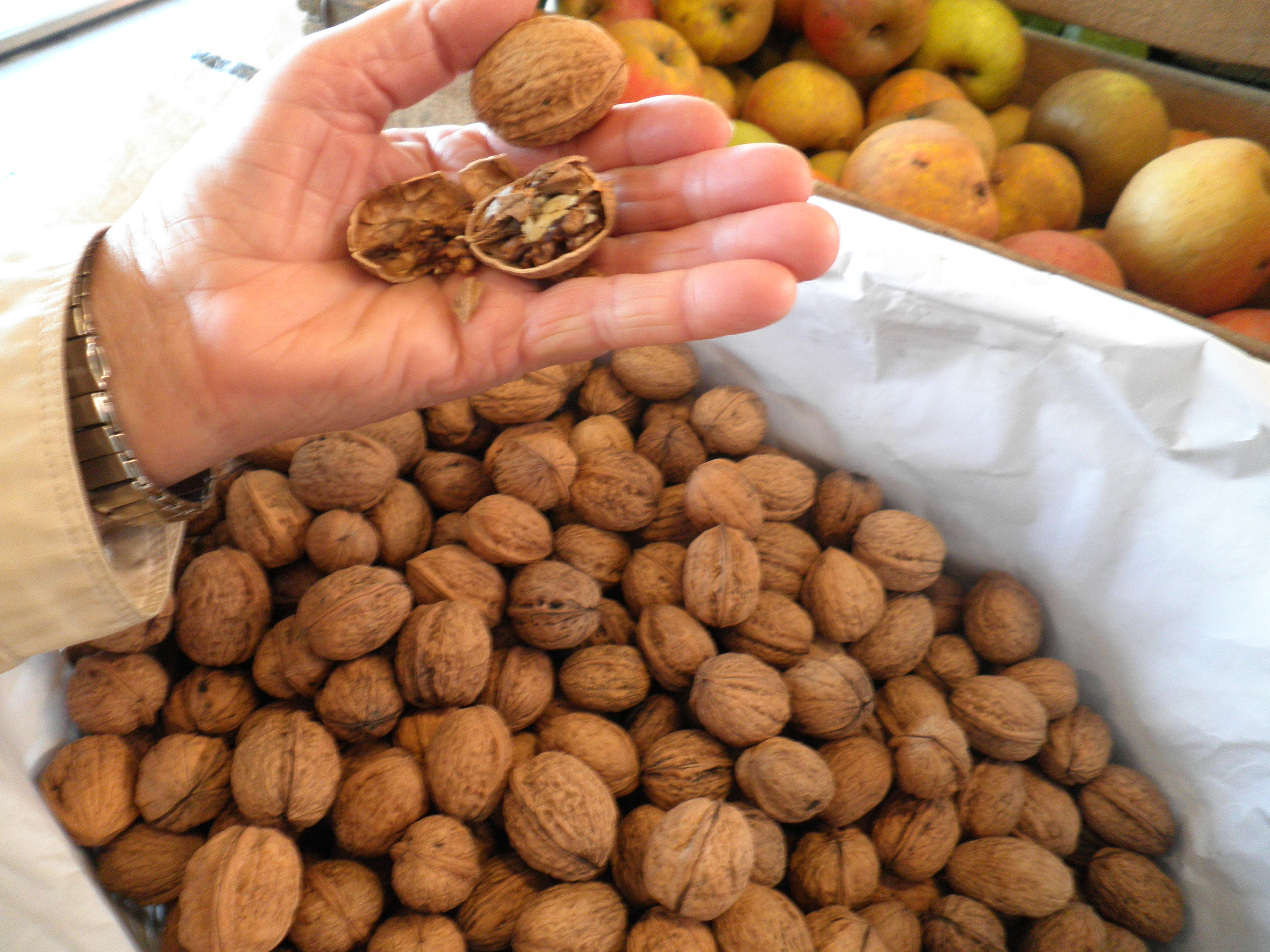 Walnuts in Basque Country market.